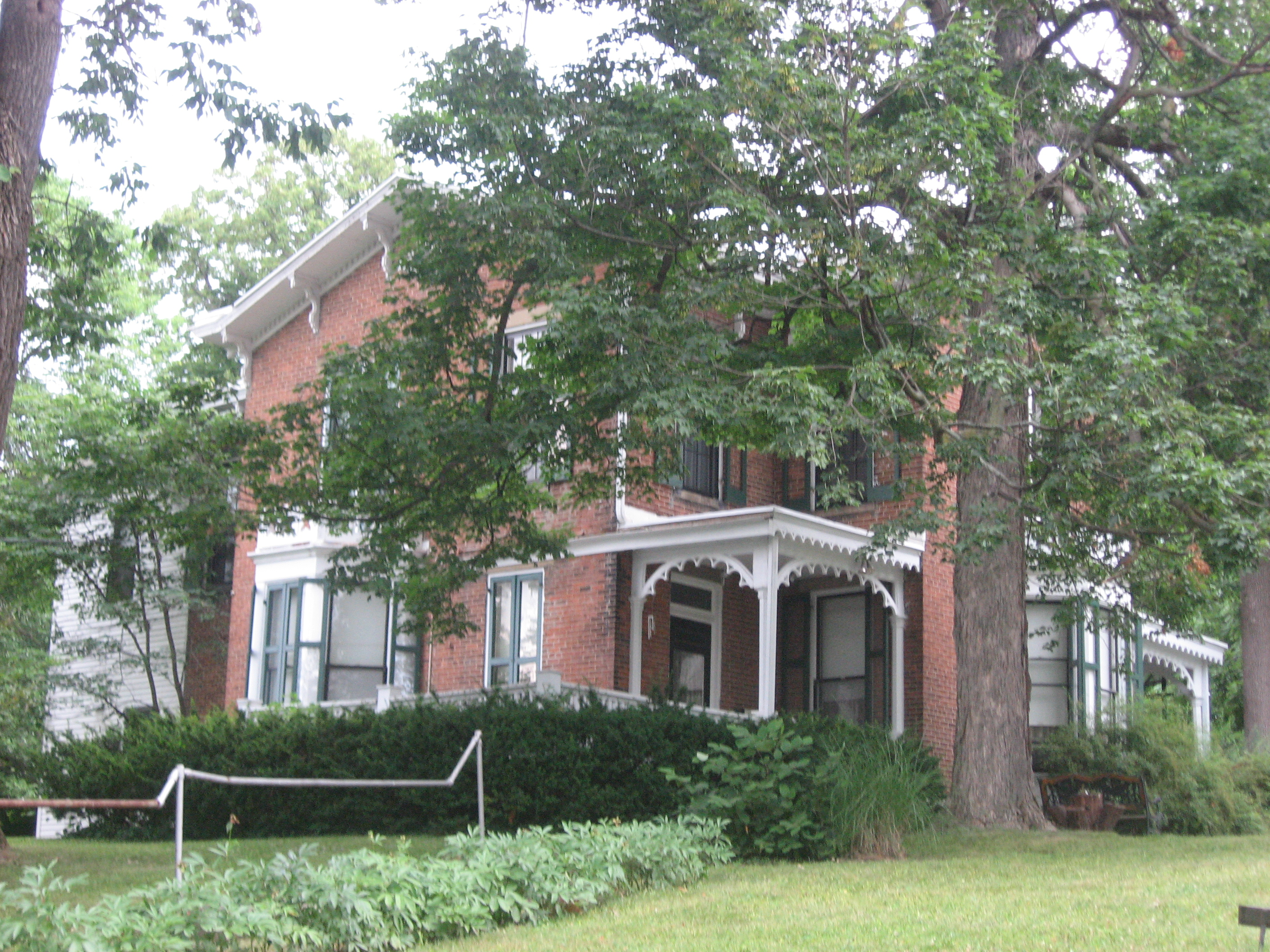 Front and side of the Mary Birdsall House, located at 504 NW. Fifth Street in Richmond, Indiana, United States. Built in 1860, it is listed on the National Register of Historic Places.